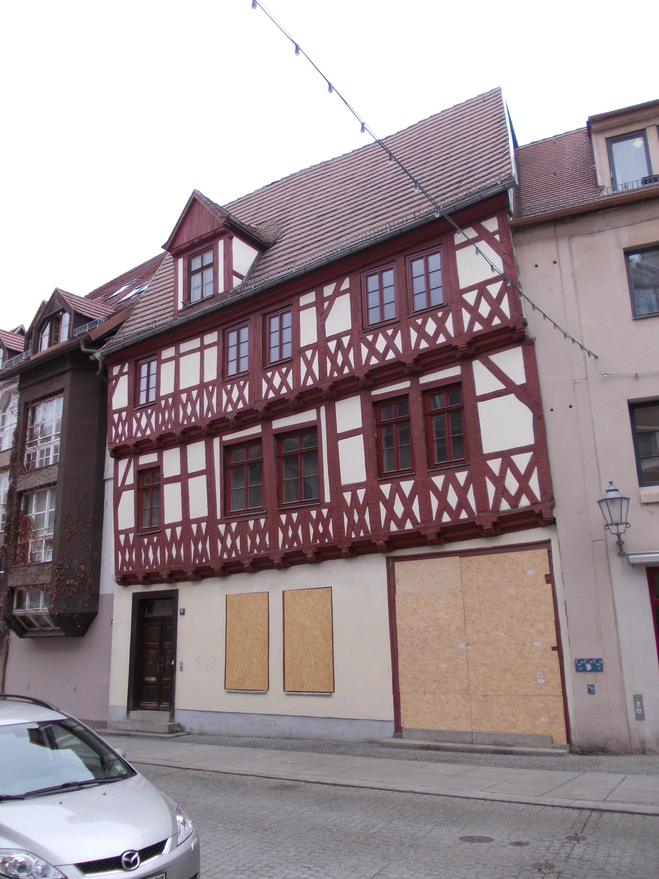 Half-timbered house at Alter Markt No. 31 in Halle (Saale)